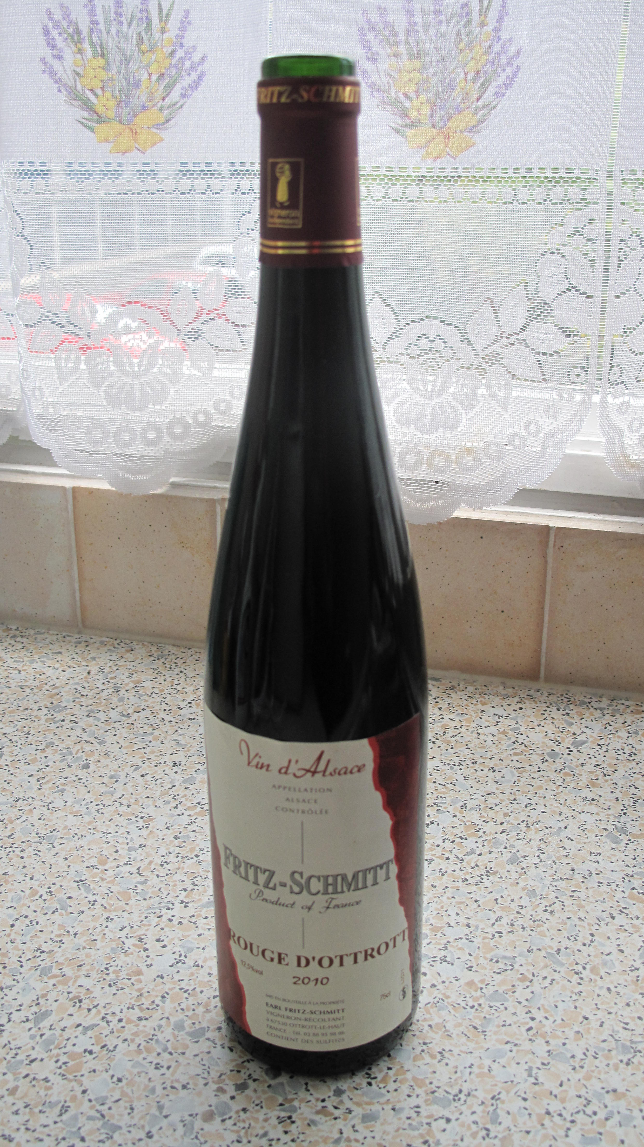 Bottle of Alsace wine "Rouge d'Ottrott", Alsace (France).